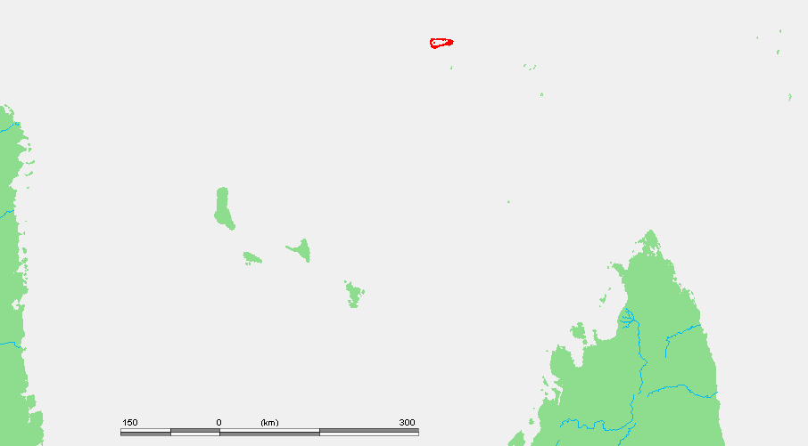 Map of the Aldabra Group islands, of the Outer Islands (Coralline Seychelles) coral archipelago of the Seychelles islands and nation. MZ Aldabra.PNG